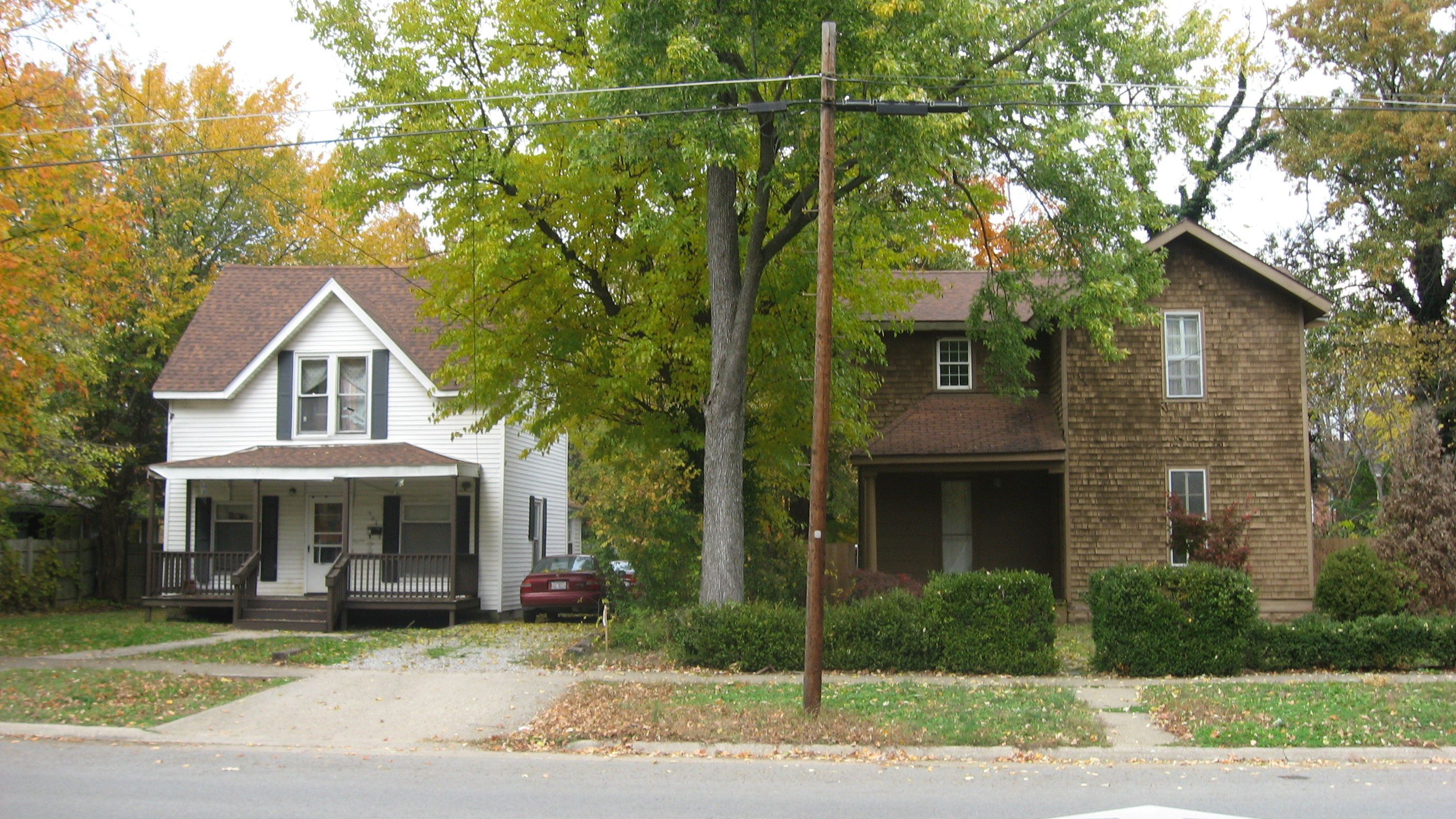 Houses on the northern side of the 500 block of W. Walnut Street (Illinois Route 13) in Carbondale, Illinois, United States. This block is part of the West Walnut Street Historic District, a historic district that is listed on the National Register of Historic Places.